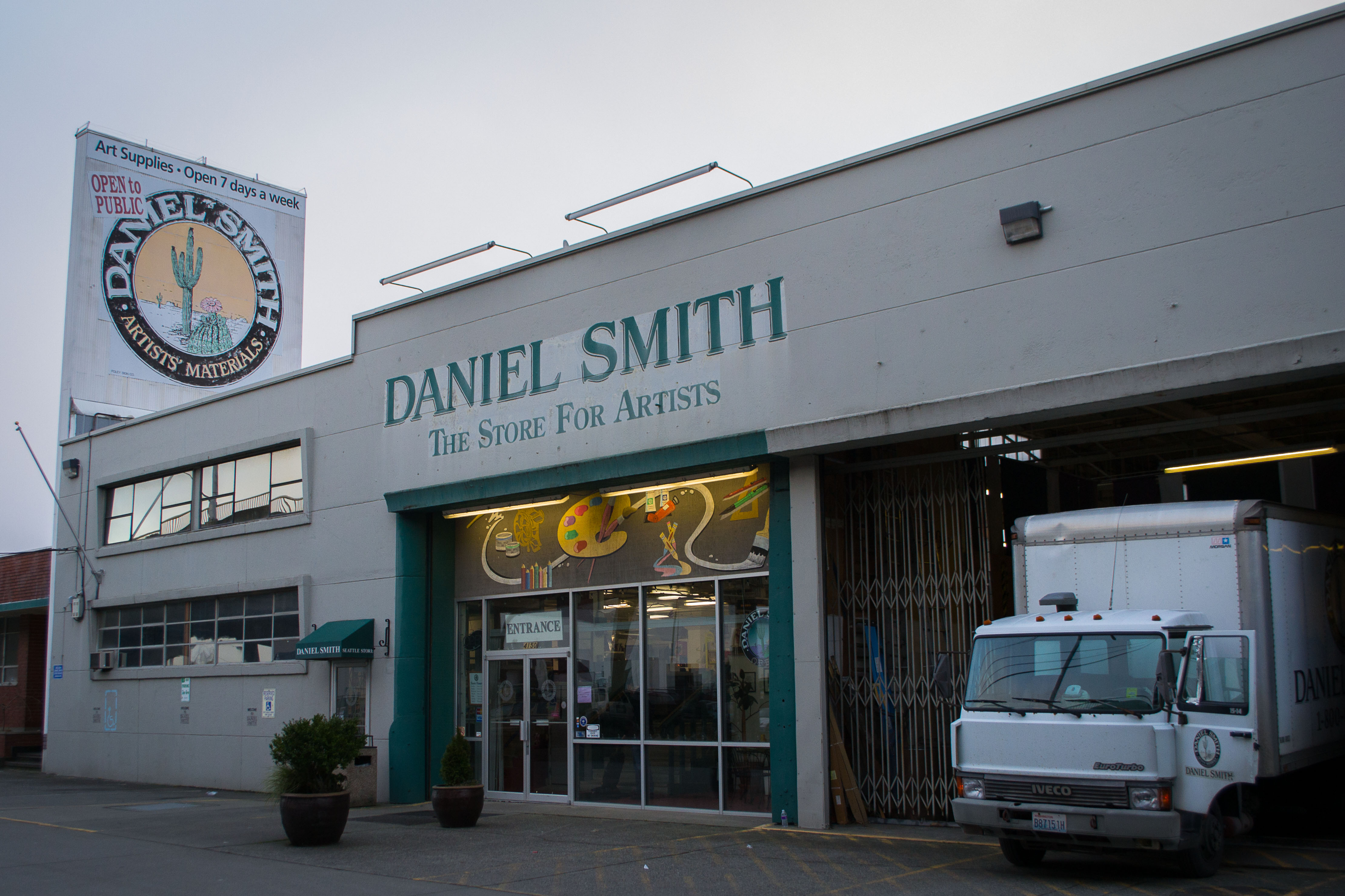 Daniel Smith Art Supplies